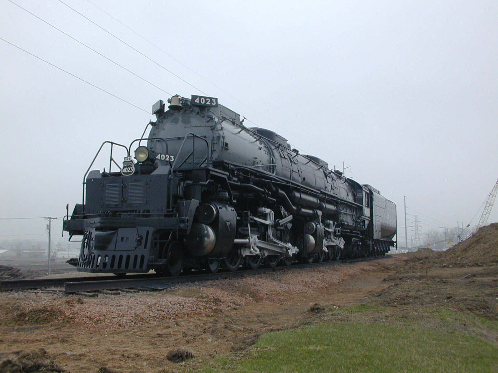 Union Pacific Big Boy 4-8-8-4 steam locomotive 4023. The 4023 is one of a class of 25 locomotives built between 1941 and 1944 by Alco. The picture was taken in Omaha, Nebraska. The locomotive has since been relocated to Kenefick Park. This image is a 3/4 shot from the front.